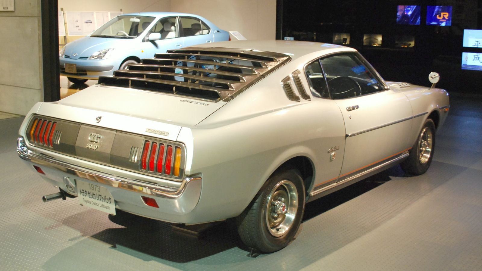 1st generation Toyota_Celica LB